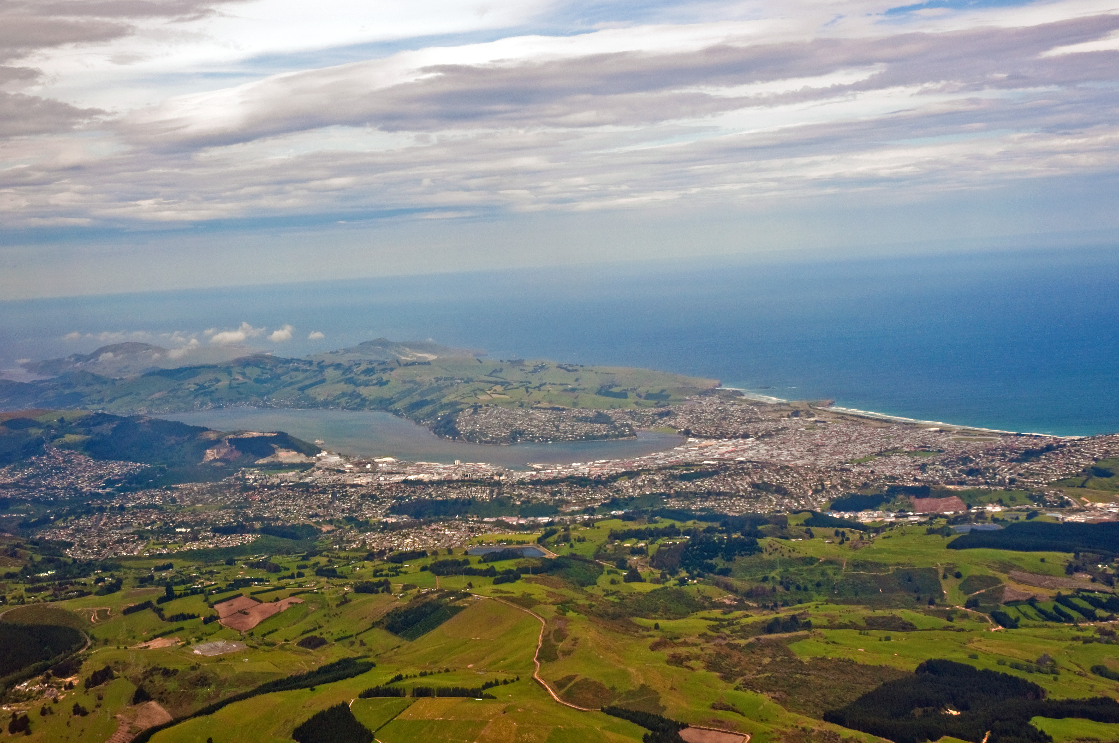 Departing Dunedin for Wellington in an air NZ Boeing 737.